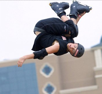 Matt Lindenmuth vert skating